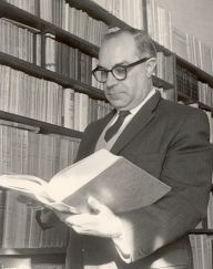 Portrait of Wikipedia:Rafael Lapesa